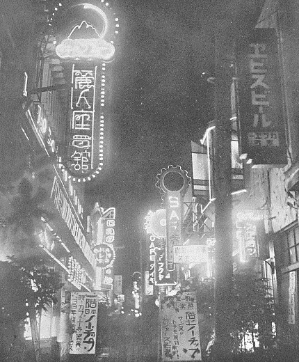 Shinjuku at night in 1930s